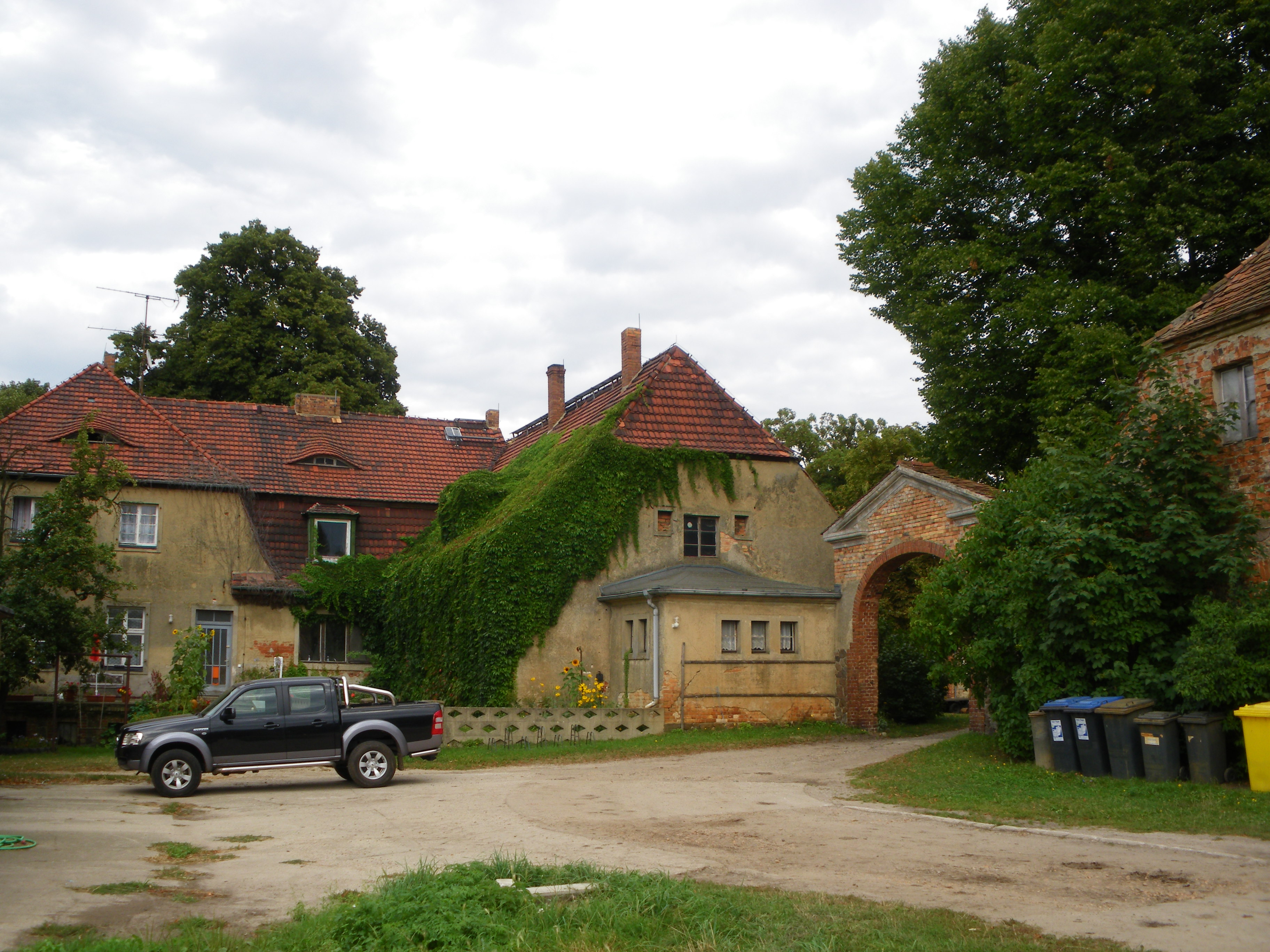 Manor in Kemmen, Calau, Brandenburg, Germany